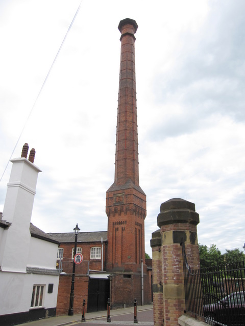 Soames Brewery chimney, Tuttle Street/Stryt Twtil, Wrexham This magnificent chimney was built in 1894 as part of the Soames Brewery in Tuttle Street/Stryt Twtil. The brewery no longer exists and its building has been converted into apartments. In 1990 the chimney was bought by the then MP Dr John Marek to save it from demolition. It is now Grade II listed.